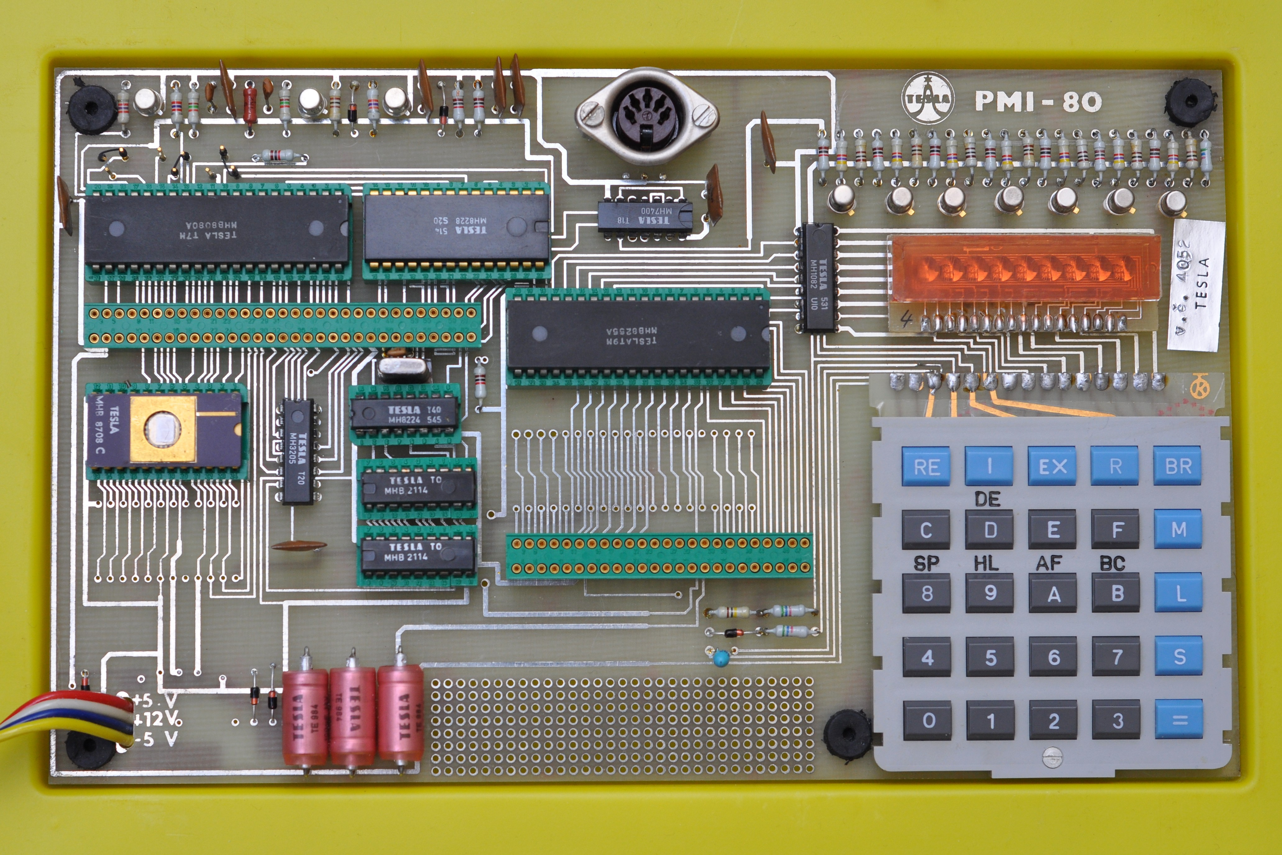 PMI-80, 1982 Czechoslovakia single-board 8080 computer